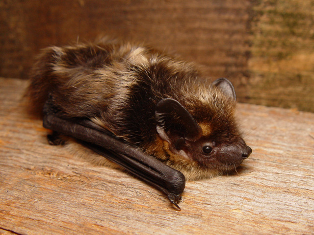 Northern serotine bat (Eptesicus nilssoni) German description: Nordfledermaus (Eptesicus nilssoni)